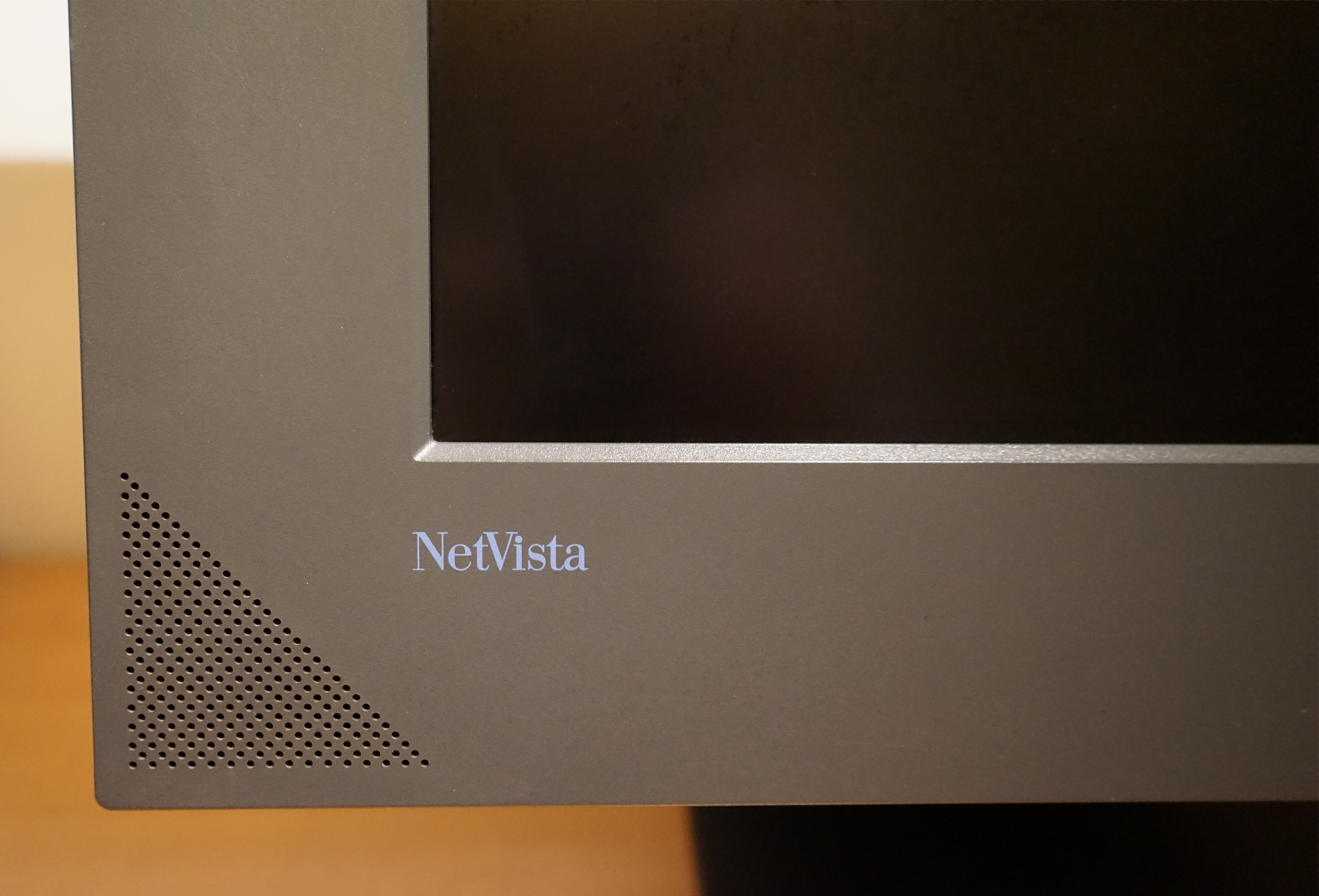 Corner with the logo of the IBM NetVista X41 All-in-one desktop computer